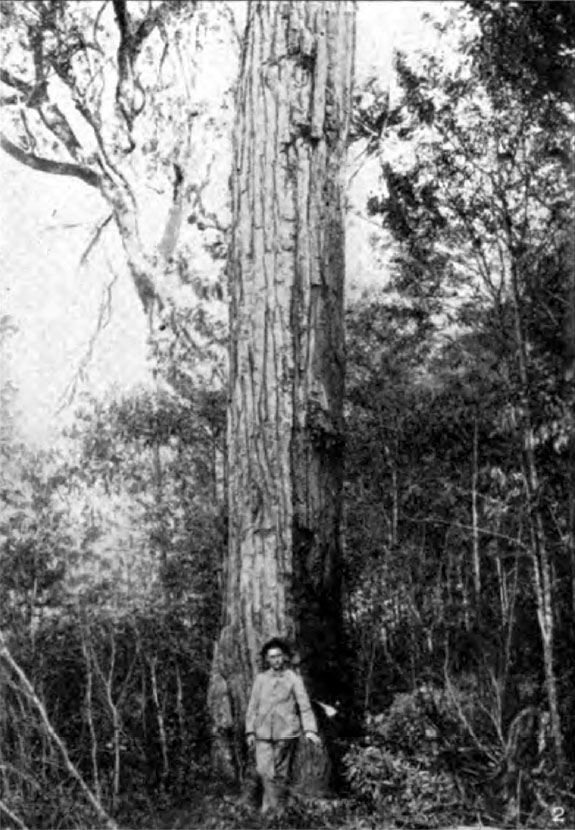 Cedro or Spanish Cedar (Cedrela sp.), in the forests of Southern Brazil. Cedro is one of the most common woods used throughout tropical America.